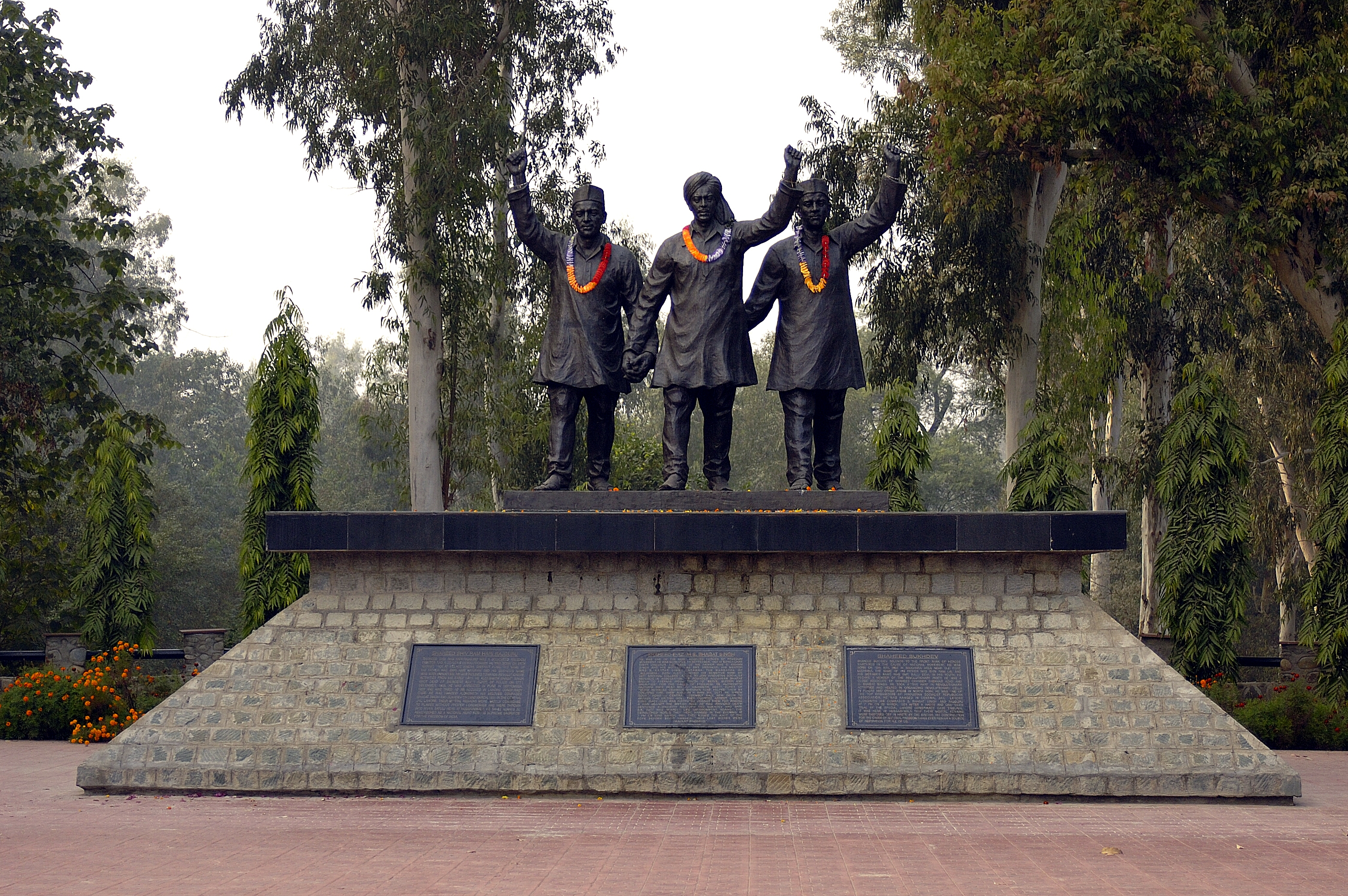 The National Martyrs Memorial is a memorial for Bhagat Singh, Sukhdev and Rajguru, who were cremated here in 1931 after their execution at the Lahore Jail.